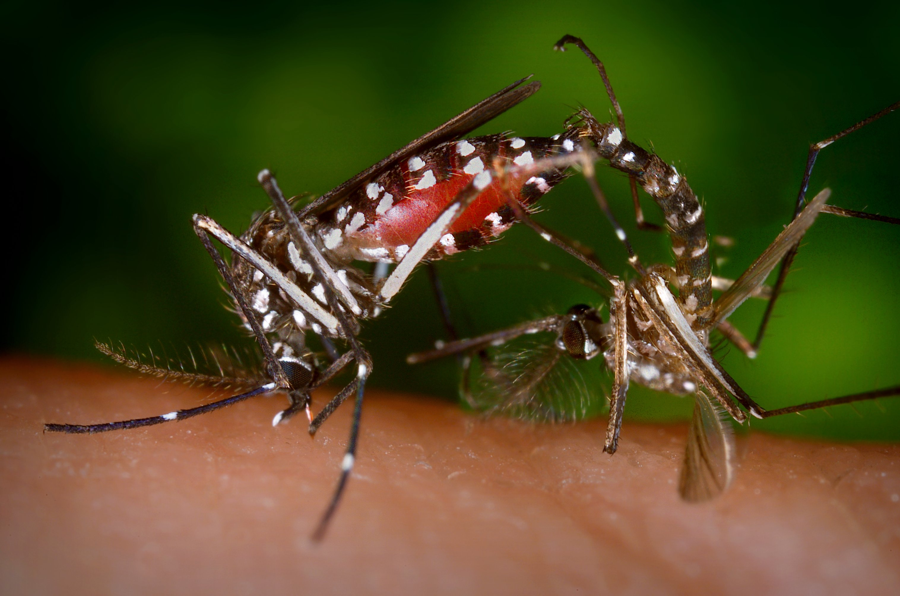 a pair of Aedes albopictus mosquitoes during a mating ritual while the female feeds on a blood meal